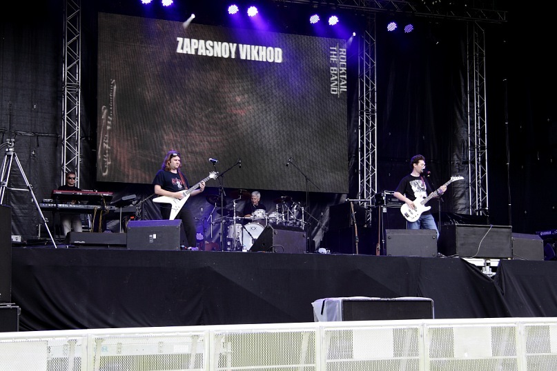 Fest CellAir MusicDays